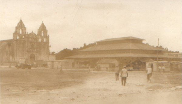 Old Market in Oxkutzcab was built in l940 by Genaro Vazquez Sosa, the background is seen the church of San Francisco.